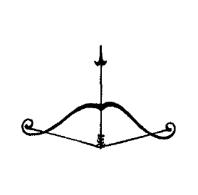 A simple drawing of arrow and bow – used as a symbol (in various variants) in Indian Elections.